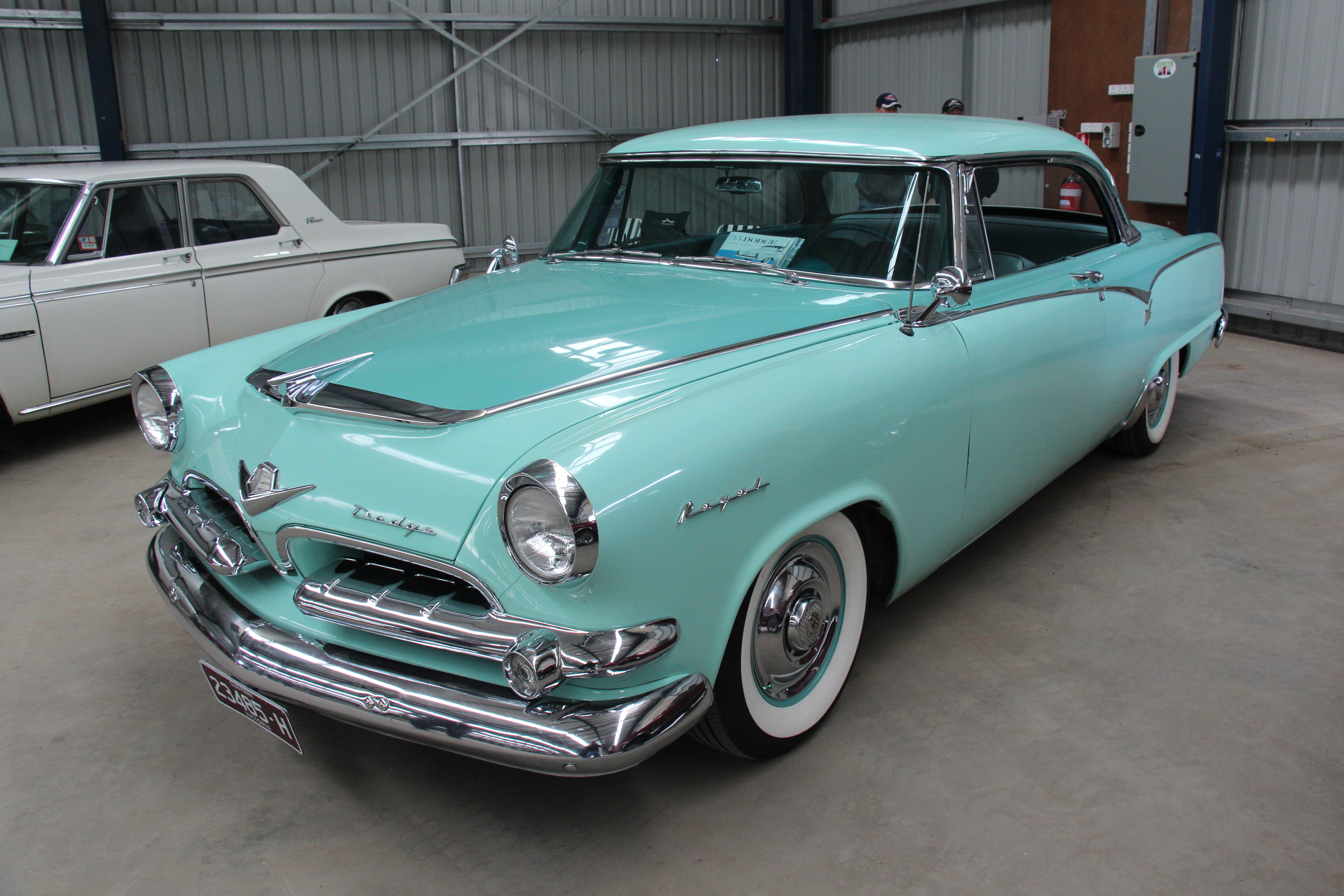 Coronets were made from 1949-76, for 1955 the Coronet was now the base level Dodge, the Wayfarer and Meadowlark were dropped, upmarket models were the Royal and Custom Royal. It was available in 4 door sedan and station wagon. The 2 door hardtop coupe and the convertible were called the Lancer (the top model the Custom Royal Lancer) 1955 and 1956 models were nearly identical, but a more pronounced fin at the back on the 56 Engines; 230 cu in 6 or 270 cu in V8, (all Royals and Custom Royals were V8s) the sporty D500 model got the 315 cu in V8